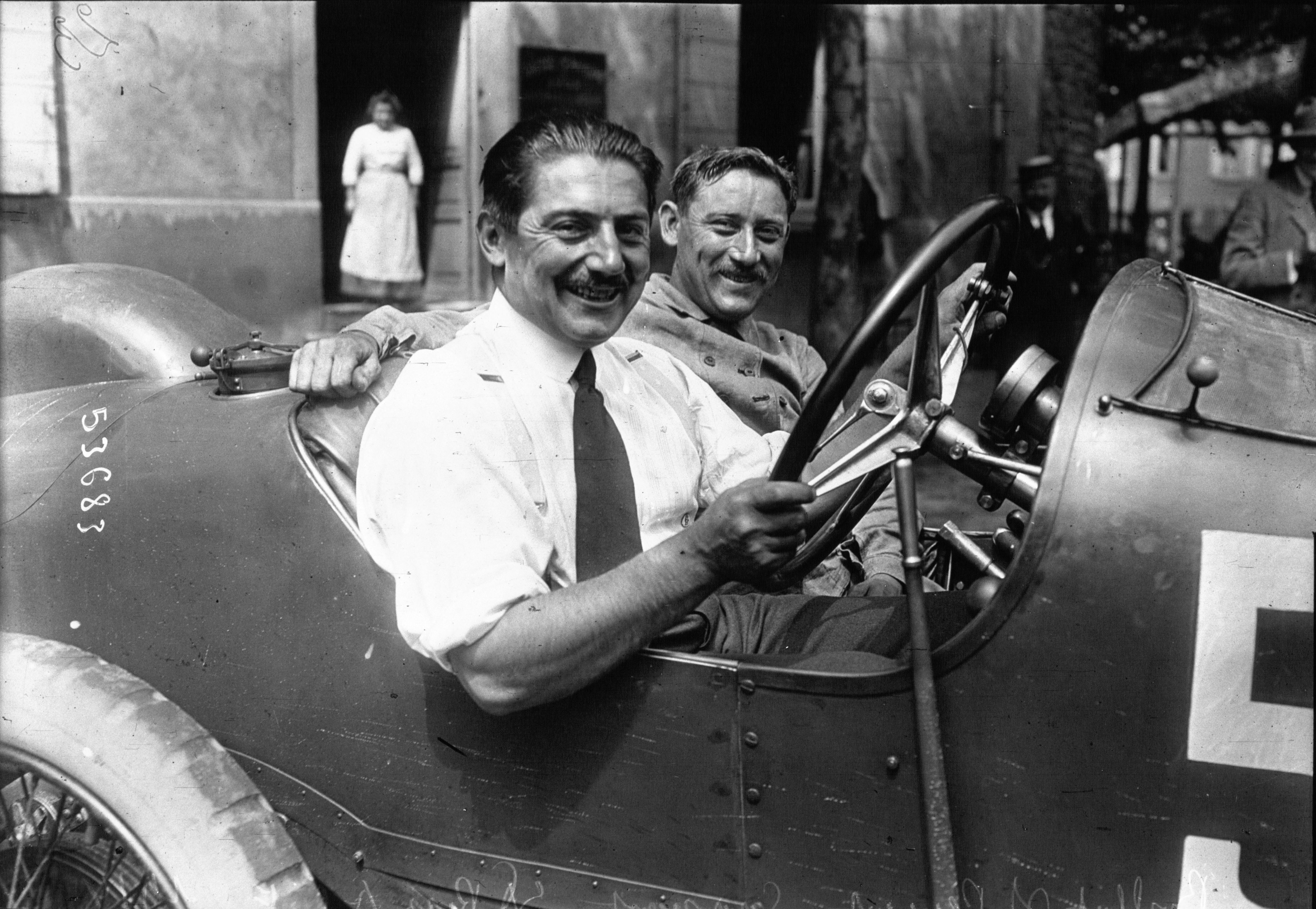 Georges Boillot at the 1914 French Grand Prix